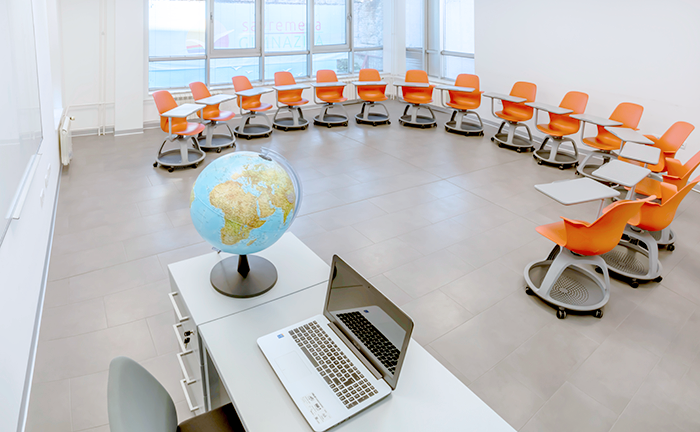 Savremena International School - interior